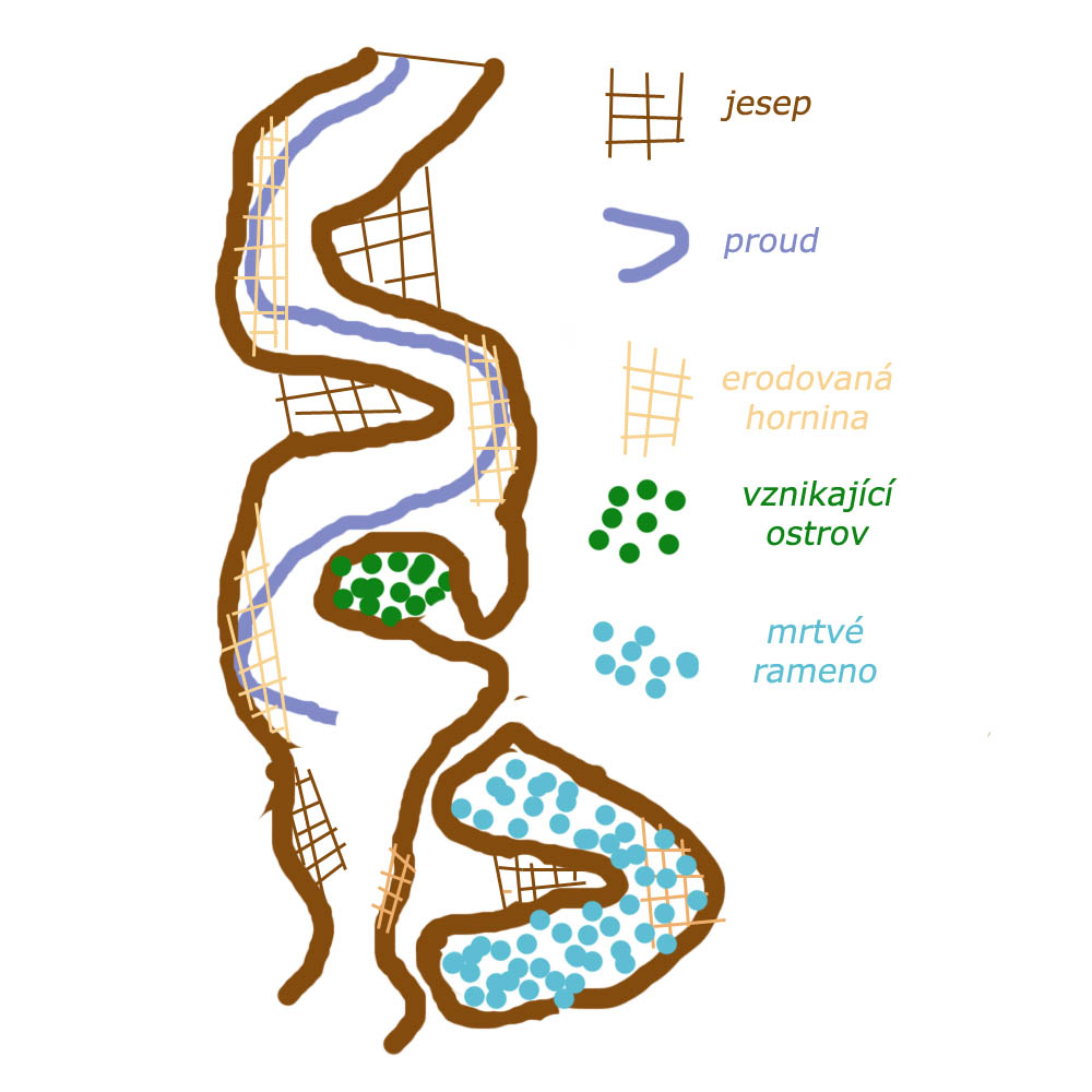 river meander dynamics (2)